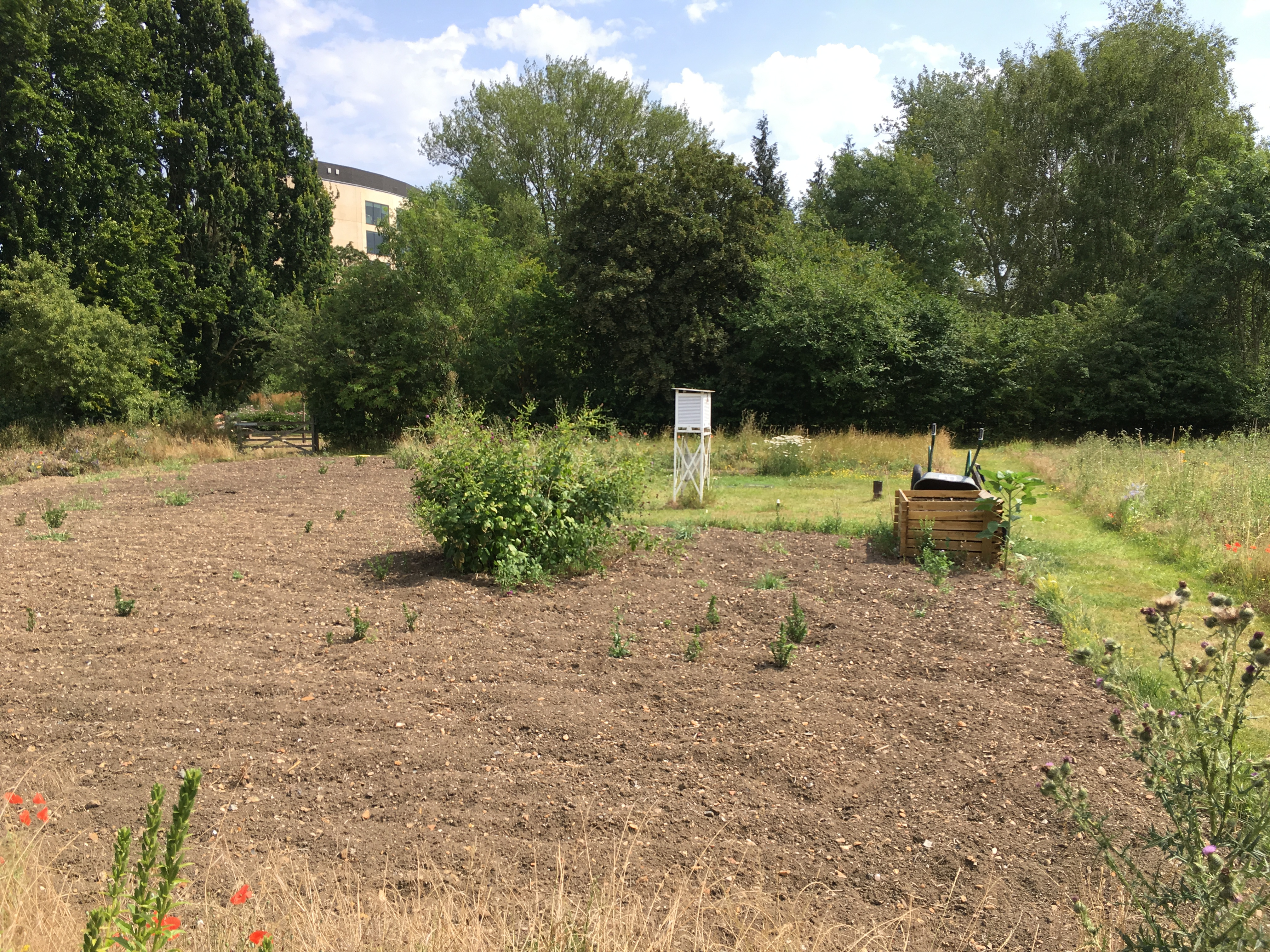 Cambridge Botanic Garden Weather Station from the west, taken the day after a temperature reading of 38.7 degrees was recorded